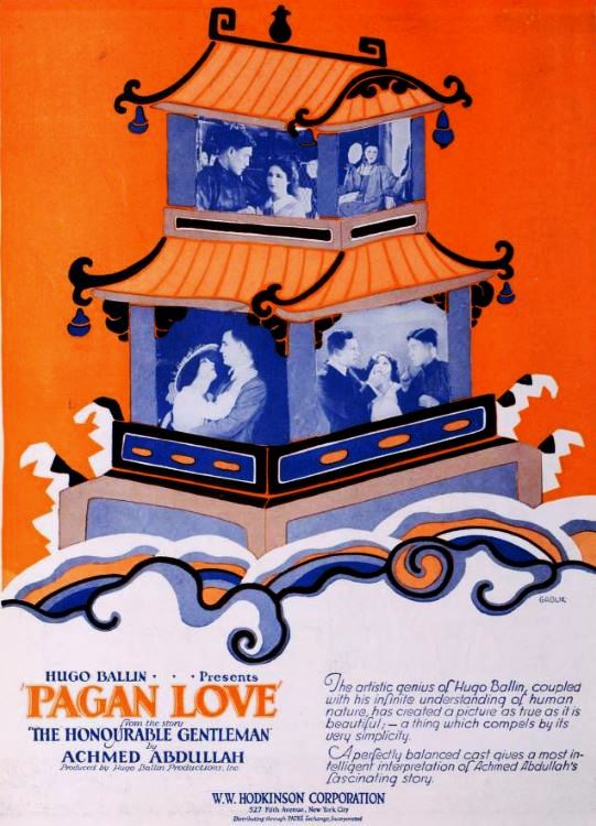 Advertisement for the American drama film Pagan Love (1920) with Mabel Ballin, Rockliffe Fellowes, and Tôgô Yamamoto, from the insert after page 6 of the January 1, 1921 Exhibitors Herald.